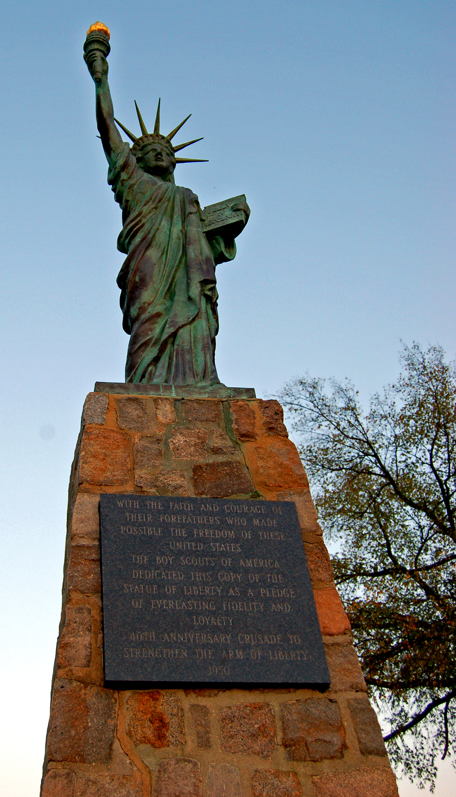 Lady Liberty, part of Strengthen the Arm of Liberty in Chimborazo Park in Church Hill, Richmond, Virginia